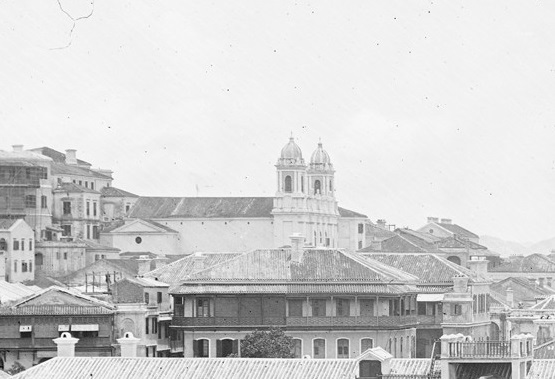 First First Roman Catholic Cathedral of Hong Kong in 1868/1871